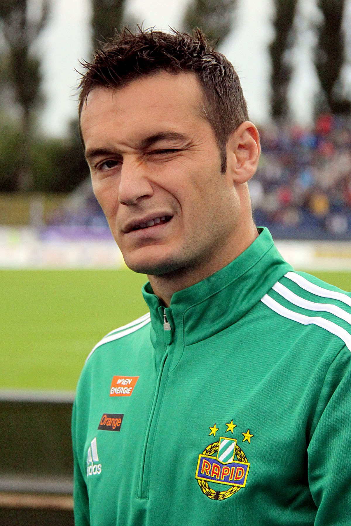 SC Wiener Neustadt (blue shirts) vs SK Rapid Wien (white shirts) 0:2 (0:0) – The foto shows Hamdi Salihi (SK Rapid Wien).